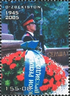 Stamps of Uzbekistan, 2005